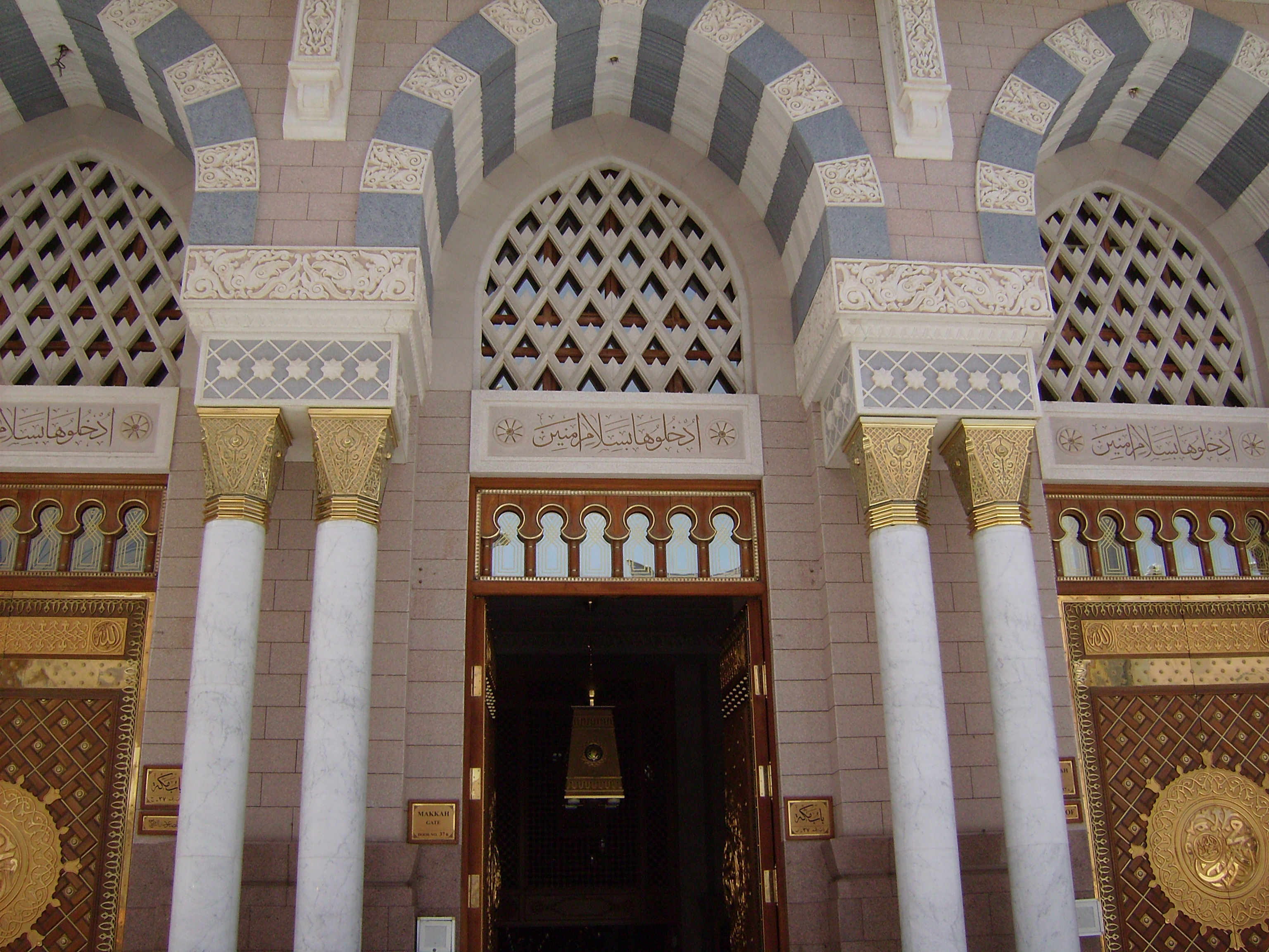 Al-Masjid Al-Nabawi Door